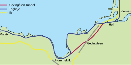 Map of Gevingåsen tunnel (purple), including the current Nordlandsbanen (blue) and E6 (yellow). In Malvik and Stjørdal, Norway.